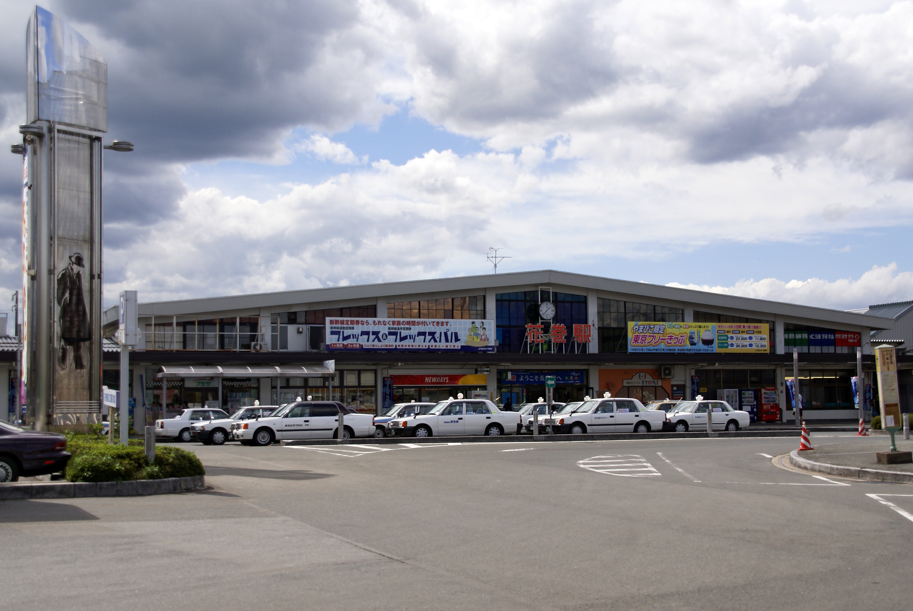 Hanamaki Station in Hanamaki, Iwate prefecture, Japan